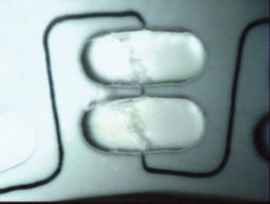 Detail of the twin cell